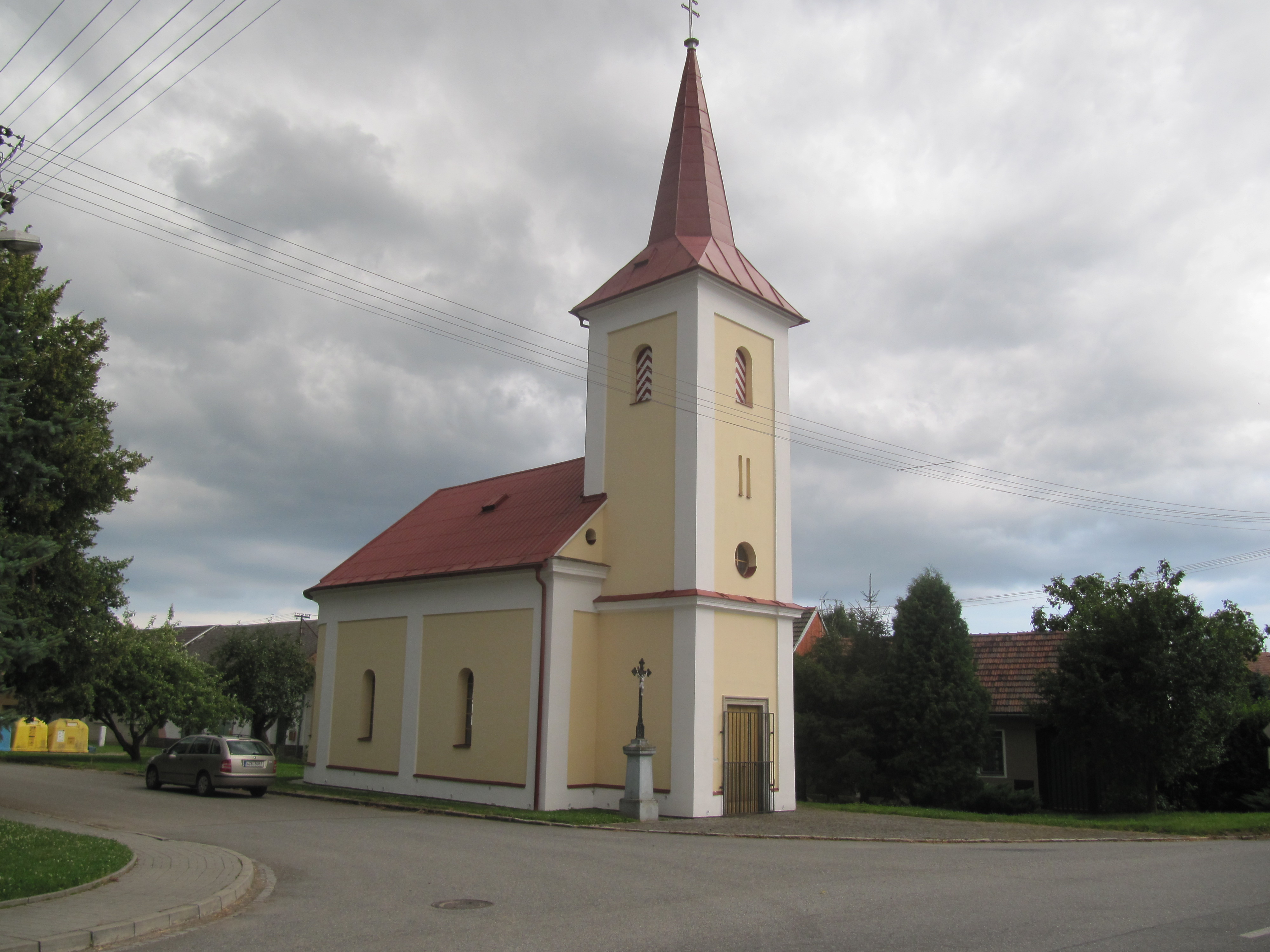 Pačlavice, Kroměříž District, Czech Republic, part Pornice.